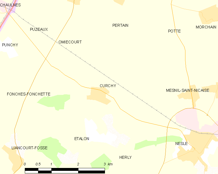 Map of French municipality Curchy